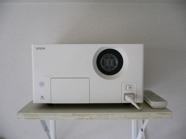 Dreamio EMP-TWD1